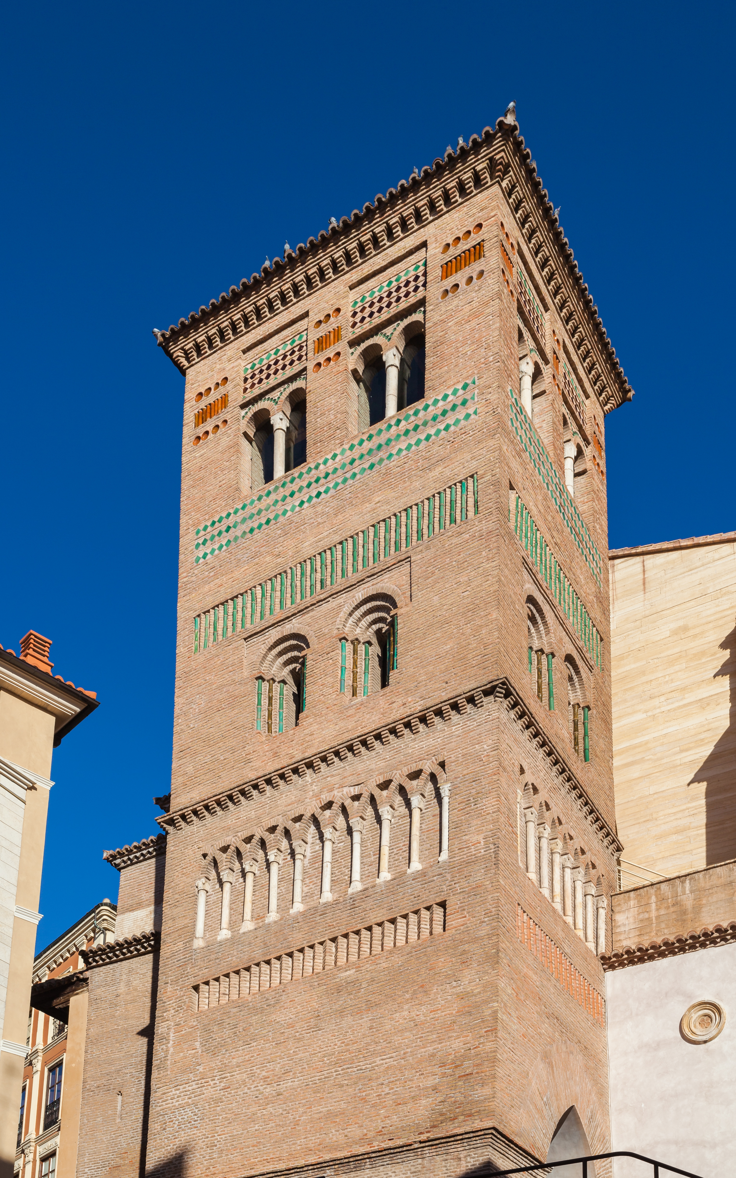 Tower of St Peter, Teruel, España